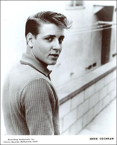 Publicity portrait of Eddie Cochran for Liberty Records